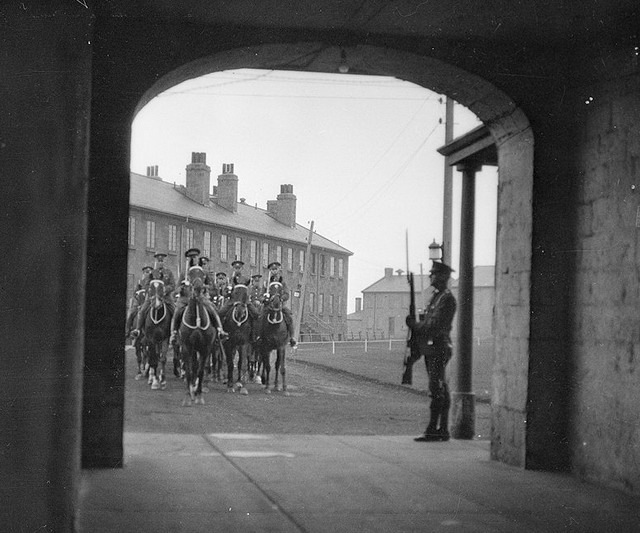 Royal Canadian Dragoons leaving Stanley Barracks through arch, April 14, 1925.